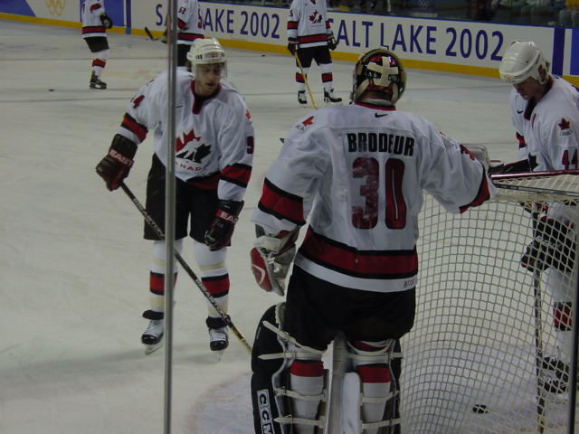 Left to right: Ryan Smyth, Martin Brodeur and Chris Pronger warm up before a game against the Czech Republic at the 2002 Winter Olympics.